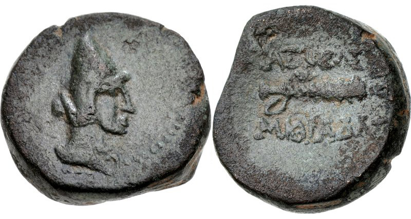 KINGS of COMMAGENE. Mithradates I Kallinikos. Circa 96-70 BC. Æ (16mm, 5.94 g, 9h). Draped bust right, wearing bashlyk / Filleted club right. Bedoukian, Coinage -; AC 195 (this coin illustrated); Alram -. VF, green patina. Extremely rare. From the R.A. Collection. Ex Araratian Collection (Classical Numismatic Group 36, 5 December 1995), lot 647 (attributed as Mithradates II).